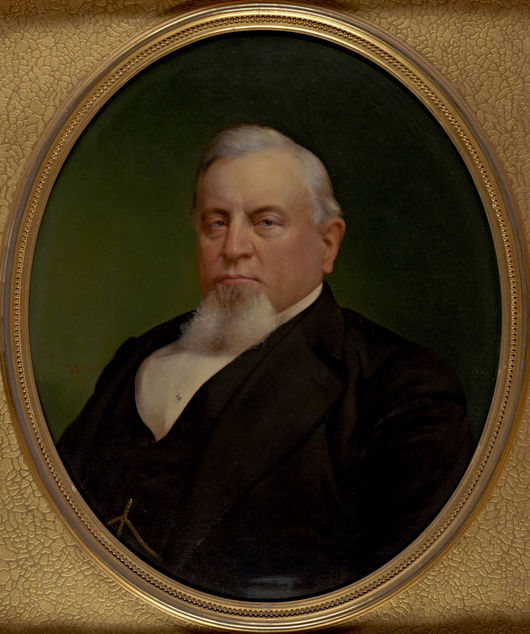 An oil painting of railroad baron Charles C. Crocker — by Stephen W. Shaw, pre 1872. Crocker Art Museum, E.B. Crocker Collection holds the original. (1872 #383)